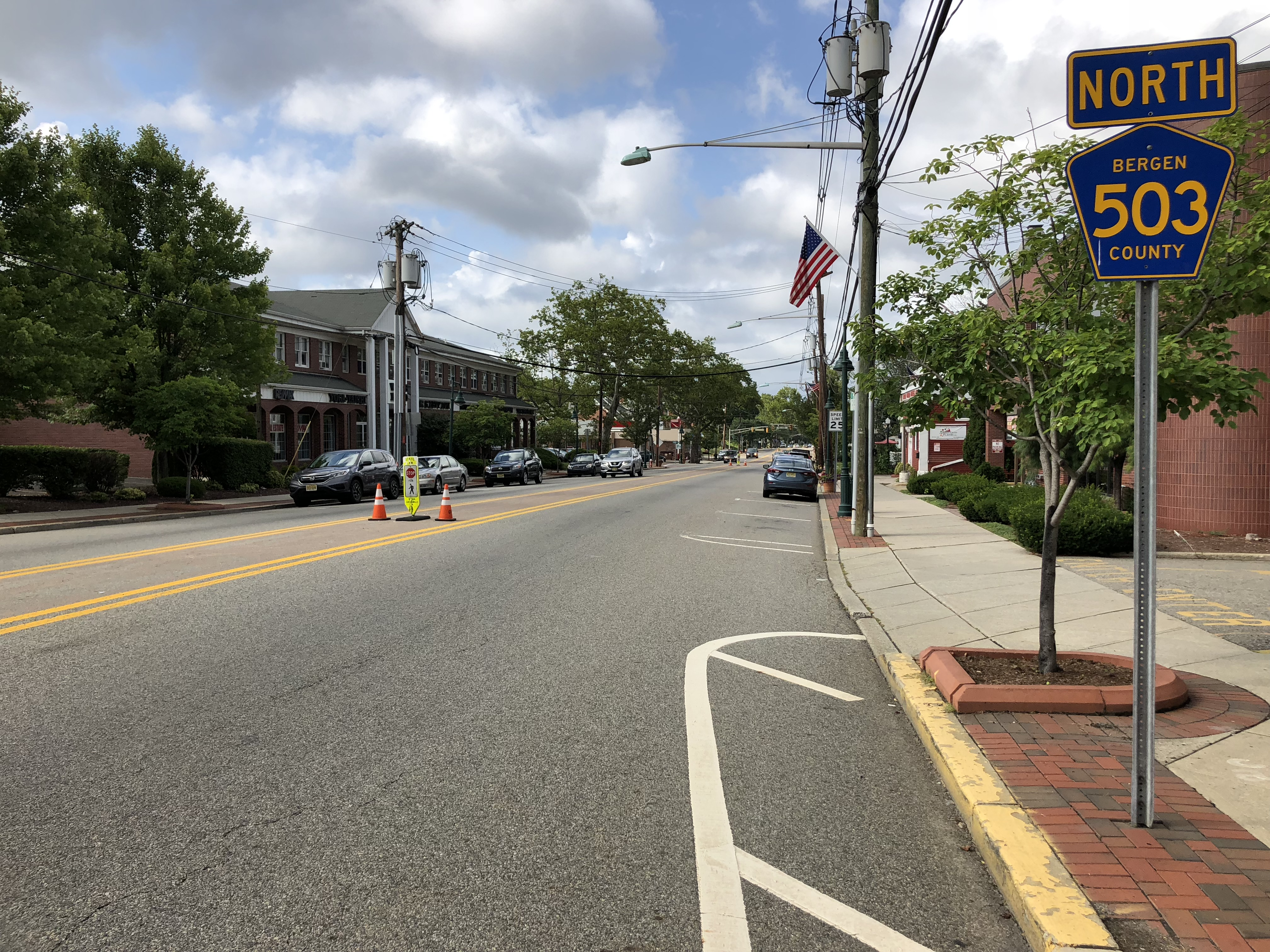 View north along Bergen County Route 503 (Kinderkamack Road) at Bergen County Route S80 (Ridgewood Avenue) in Oradell, Bergen County, New Jersey